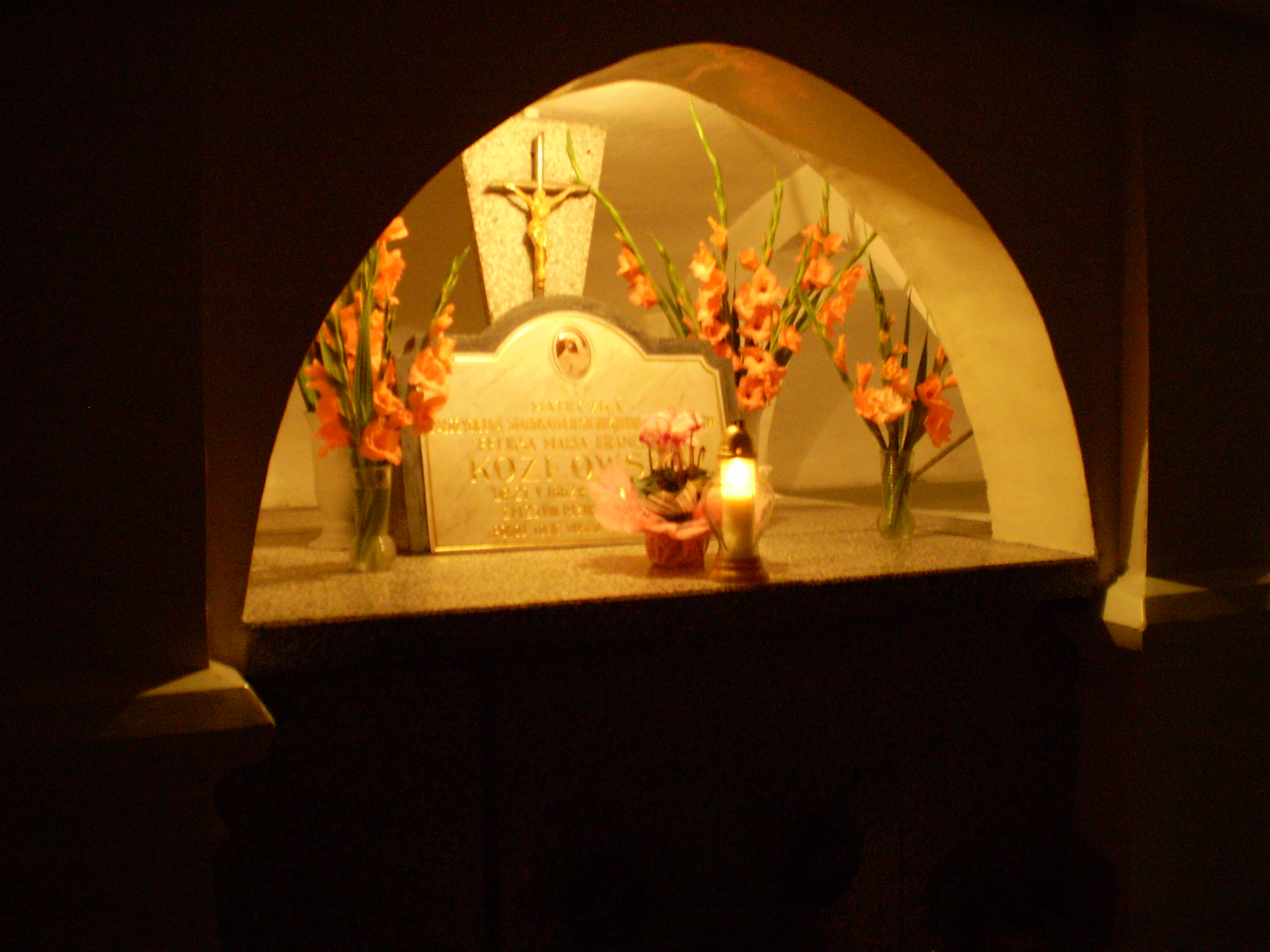 Temple in Plock